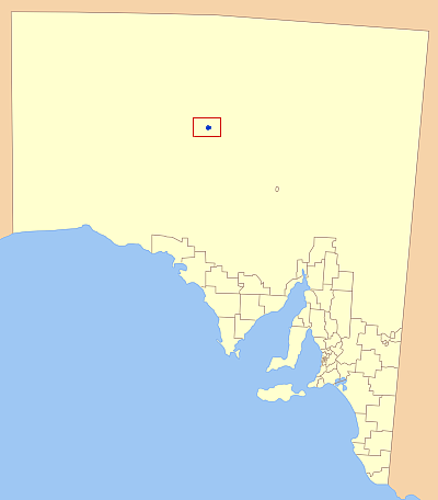 Modification of Astrokey44's original map found here: File:SA_LGA_blank.png Position of Coober pedy LGA